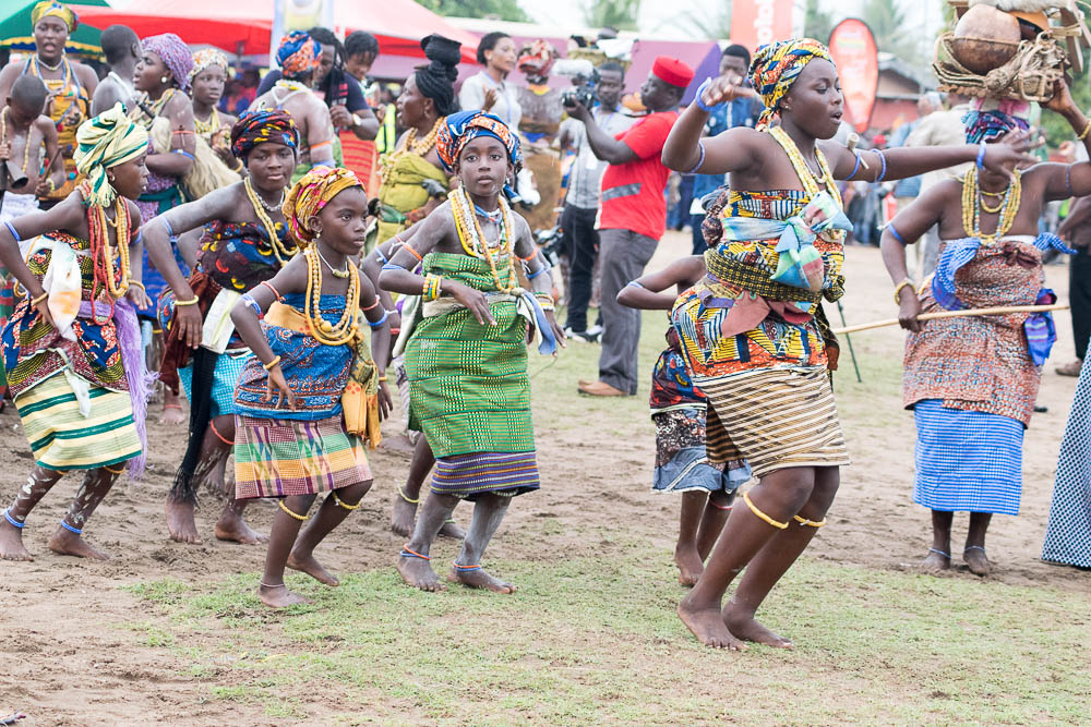 AGBADZA DANCE This is an image of Cultural Fashion or Adornment from Ghana